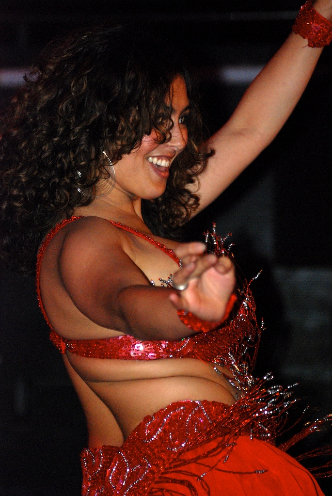 Belly dancer in "Sugar Factory", Amsterdam, Netherlands.